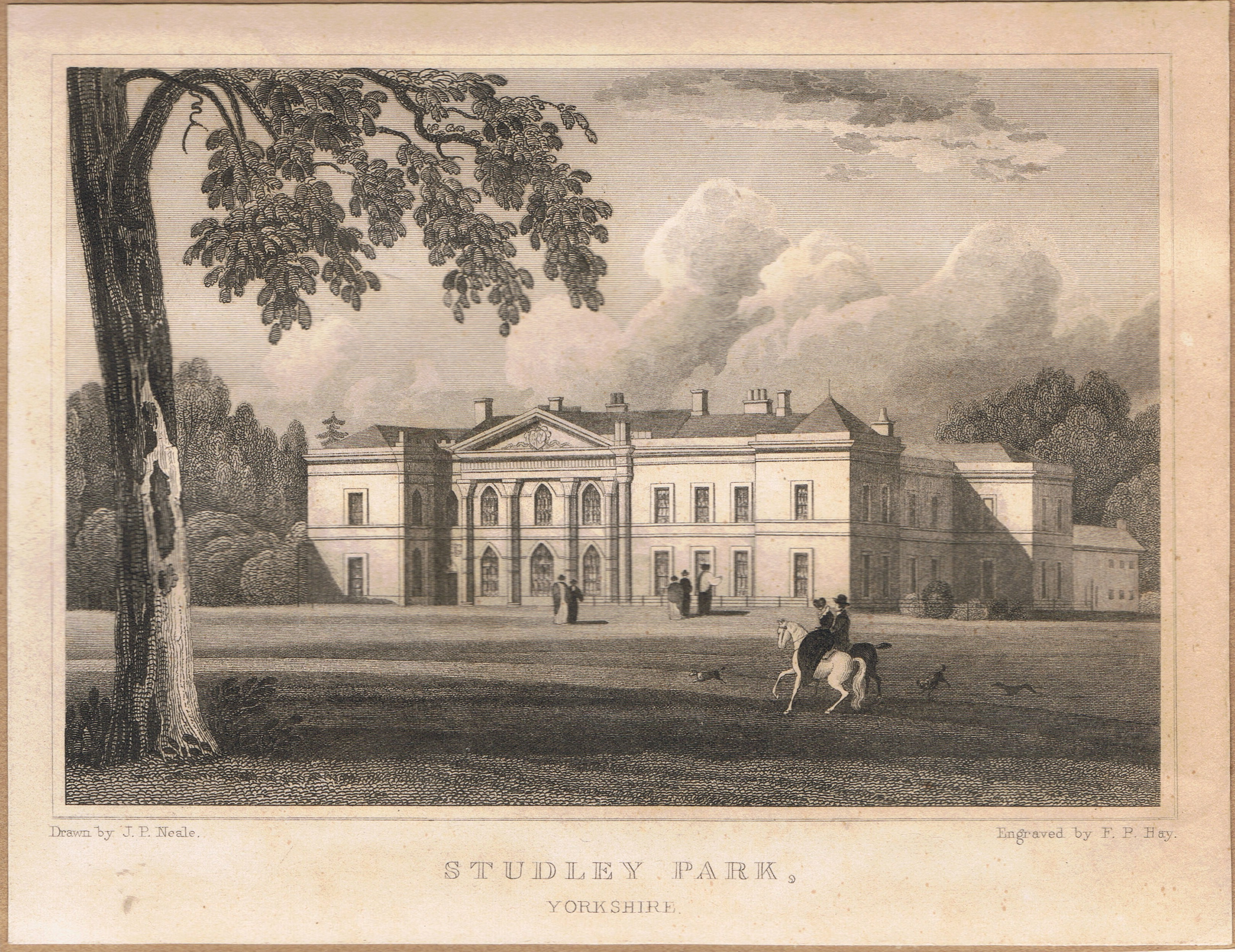 My scan (Rodolph (talk) 16:16, 2 March 2014 (UTC)) of my print of Studley Park, Yorkshire, engraved by F. P. Hay after a drawing by J.P. Neale, c1820.